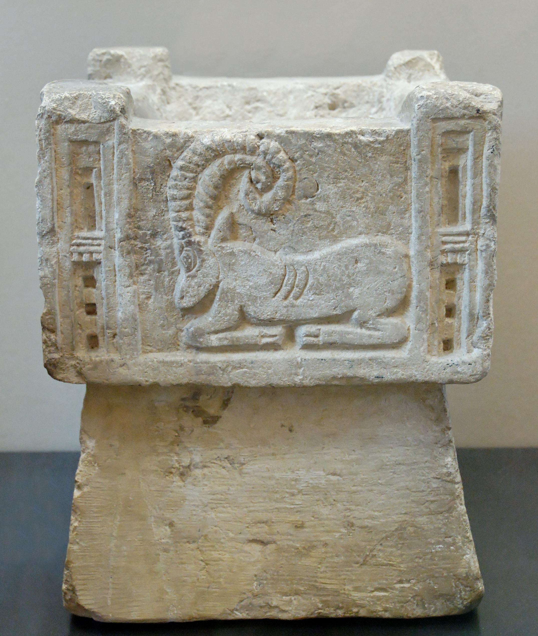 Perfume-burner with ibex; the other face shows a South-Arabic inscription about the sun-goddess Shams. Limestone, 1st–3rd century AD, Yemen.